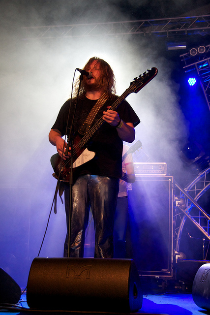 Jussi Lehtisalo of Circle performing live at Ilosaarirock 2010, Joensuu, Finland.